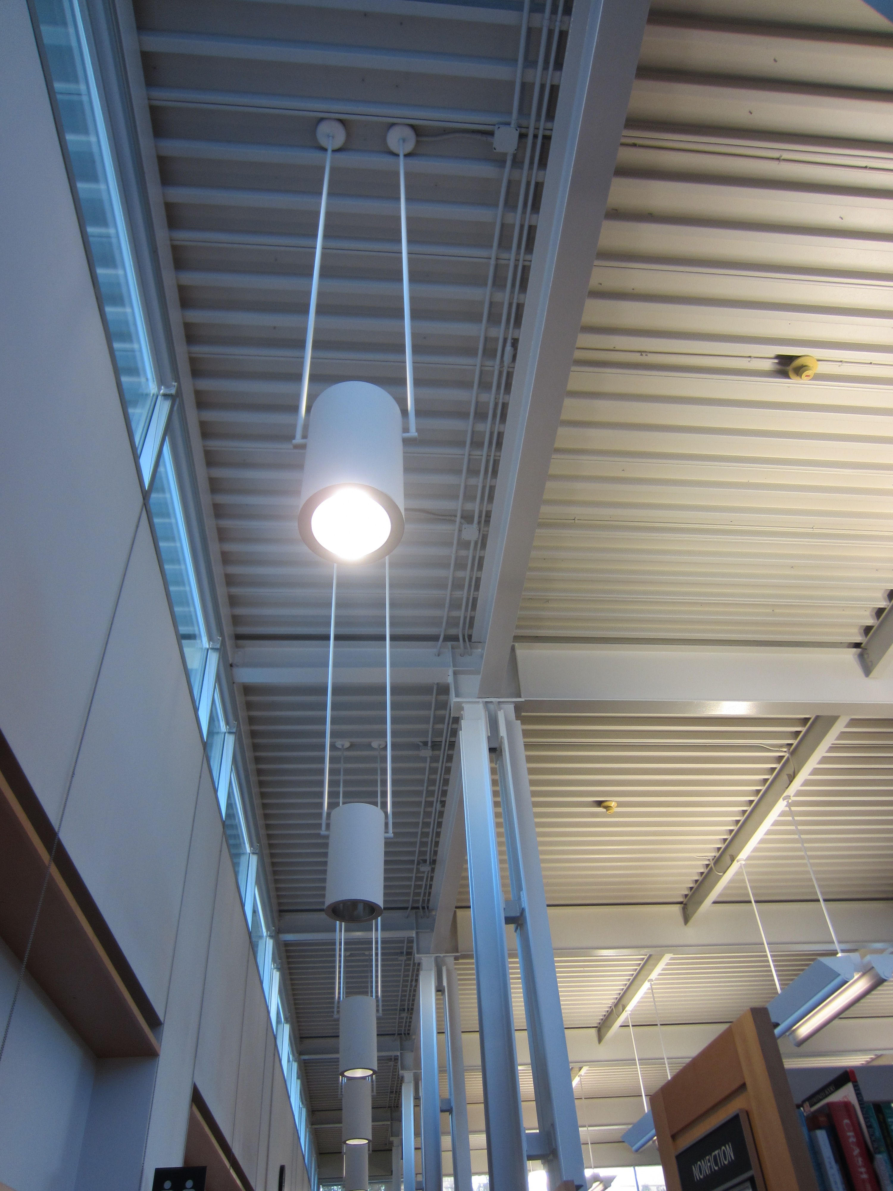 Woodstock Library, a branch of the Multnomah County Library system, located in the Woodstock neighborhood of southeast Portland, Oregon in 2012